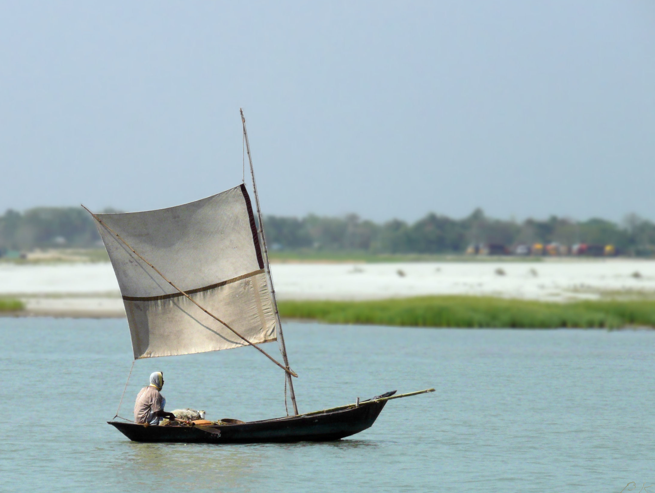 A boat sailing up the Padma River near the Ferry crossing between Dhaka & Khulna in Bangladesh.